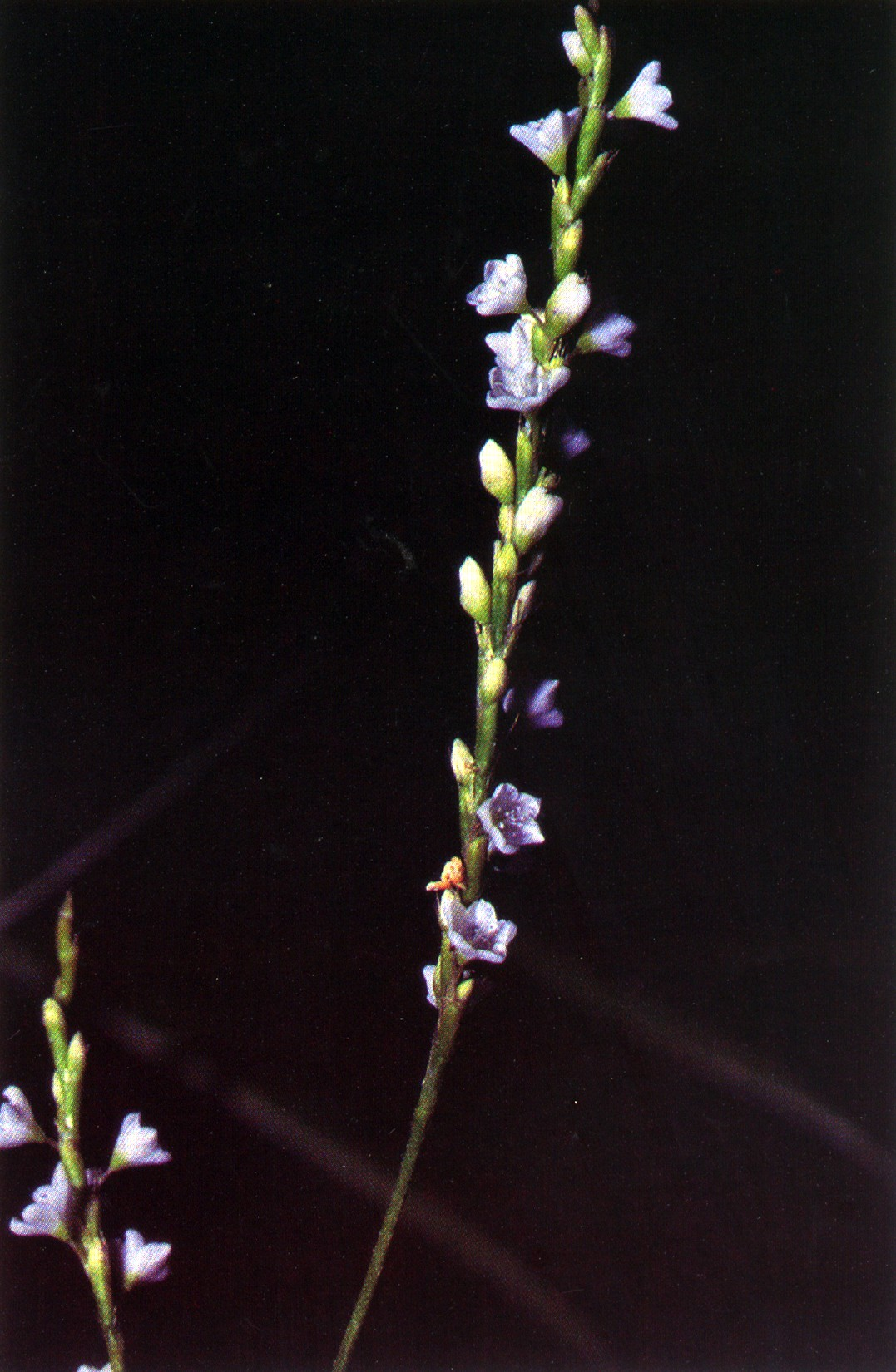 Persicaria punctata (syn. Polygonum punctatum) from Robert H. Mohlenbrock. USDA NRCS. 1992. Western wetland flora: Field office guide to plant species. West Region, Sacramento. Courtesy of USDA NRCS Wetland Science Institute.